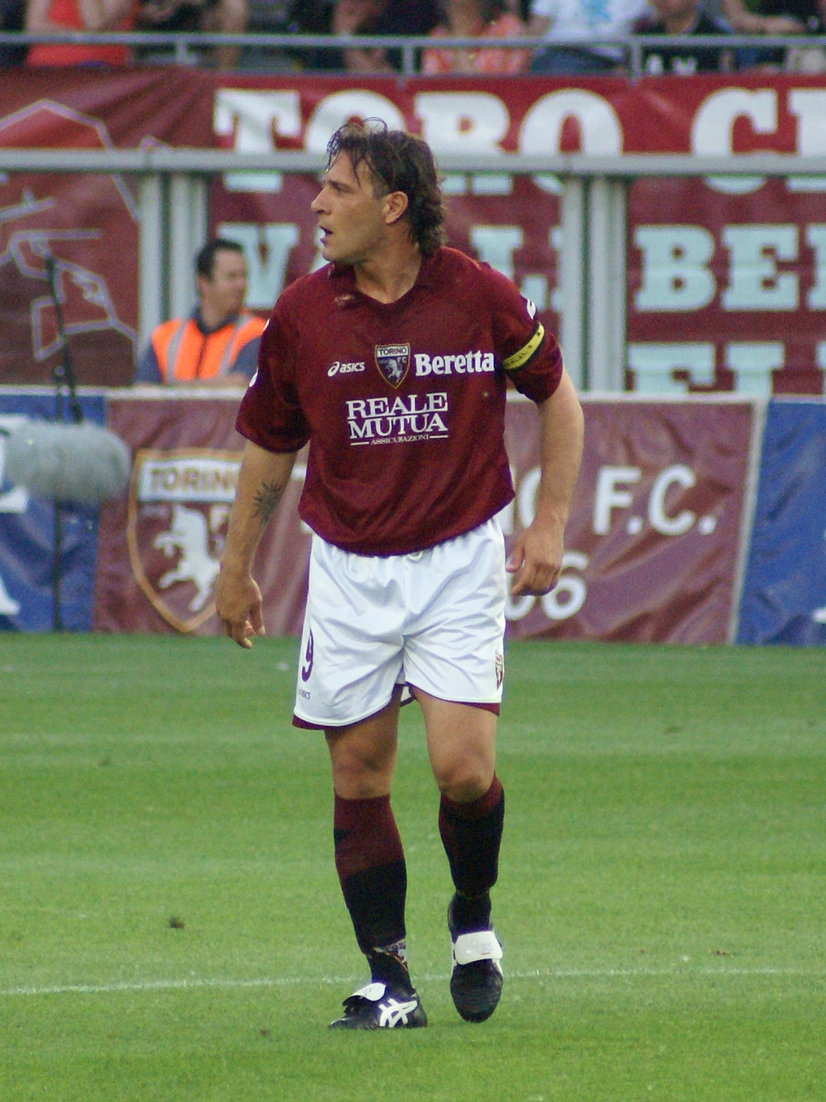 Italian Football Player (soccer) Roberto Muzzi